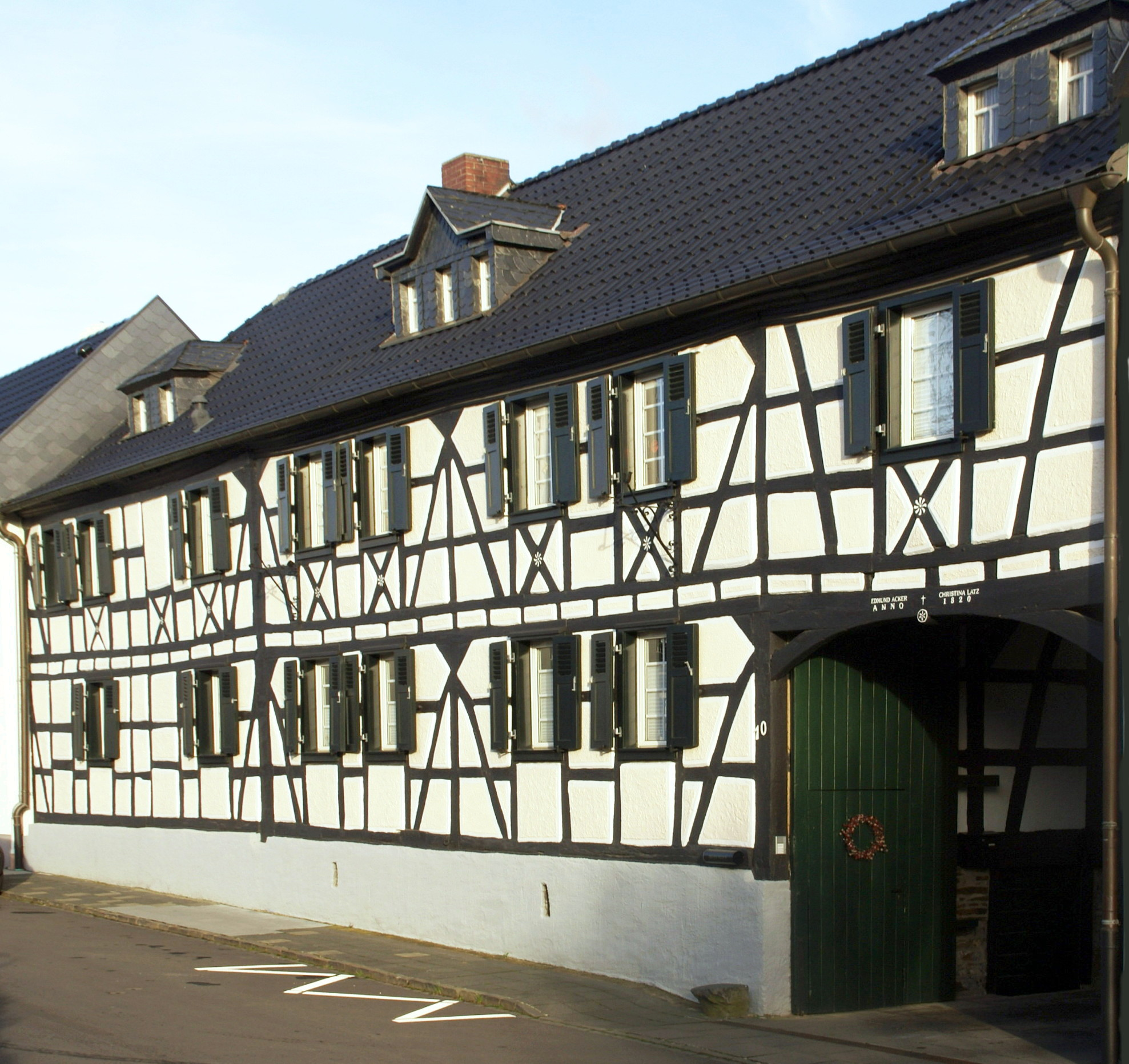 Half-timbered house in Altendorf, Ahrstraße 10